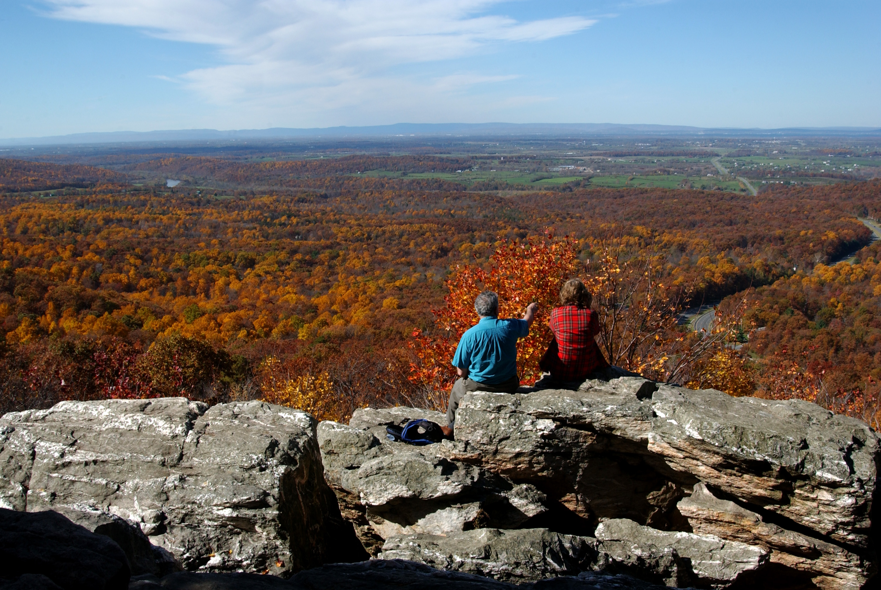 The Shenandoah Valley in the fall as seen from Bear's Den, with Route 7 on the right, and the Shenandoah River slightly appearing in the far distance (left).